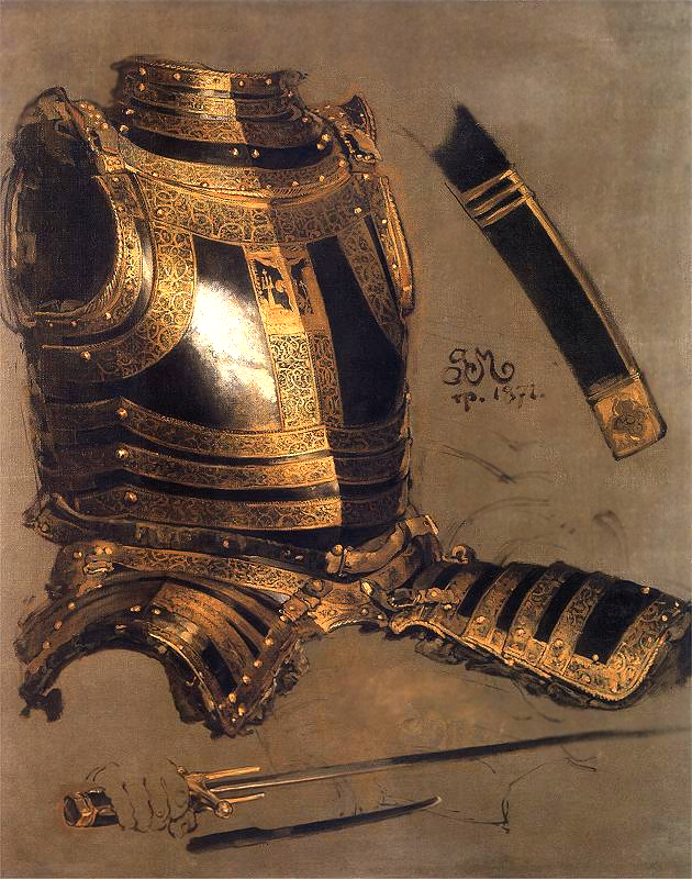 Stephen Batory armour by Jan Matejko (1838-1893)